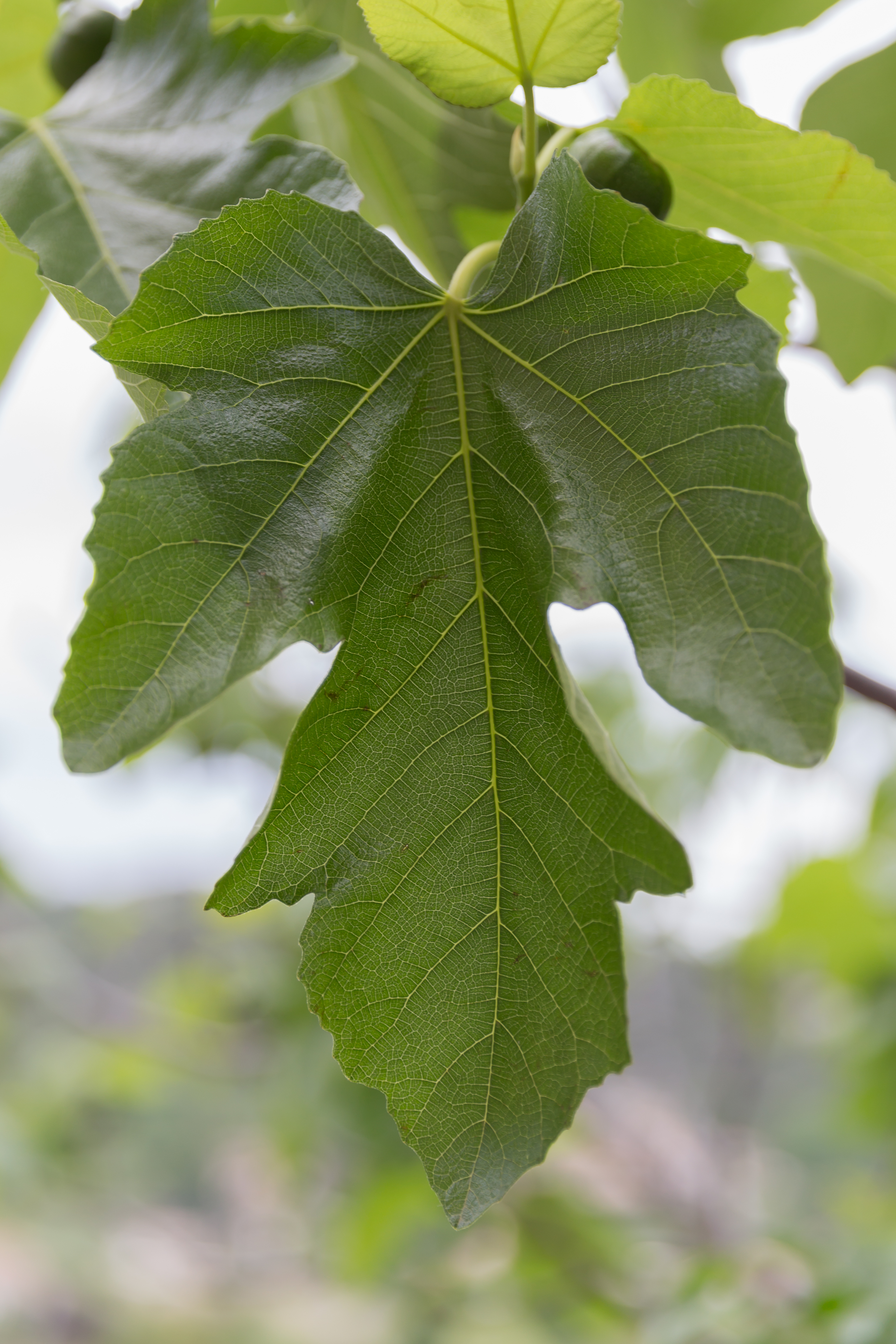 Ficus carica (Common fig) in Aiguèze, France; foliage.